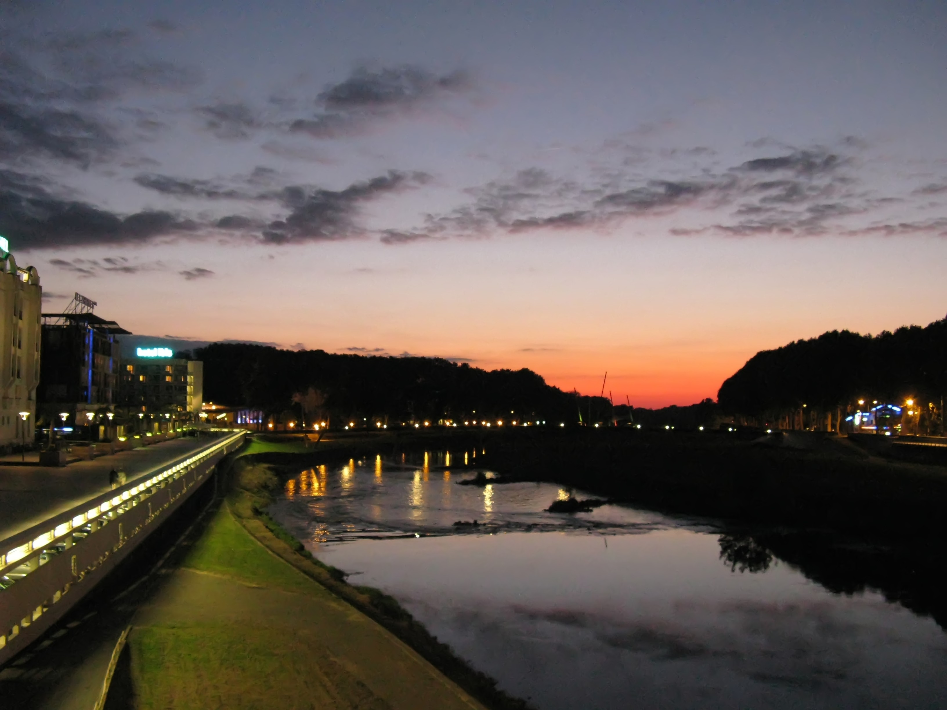 The Adour river by night in Dax (The noise has been filtered once through Noiseware)